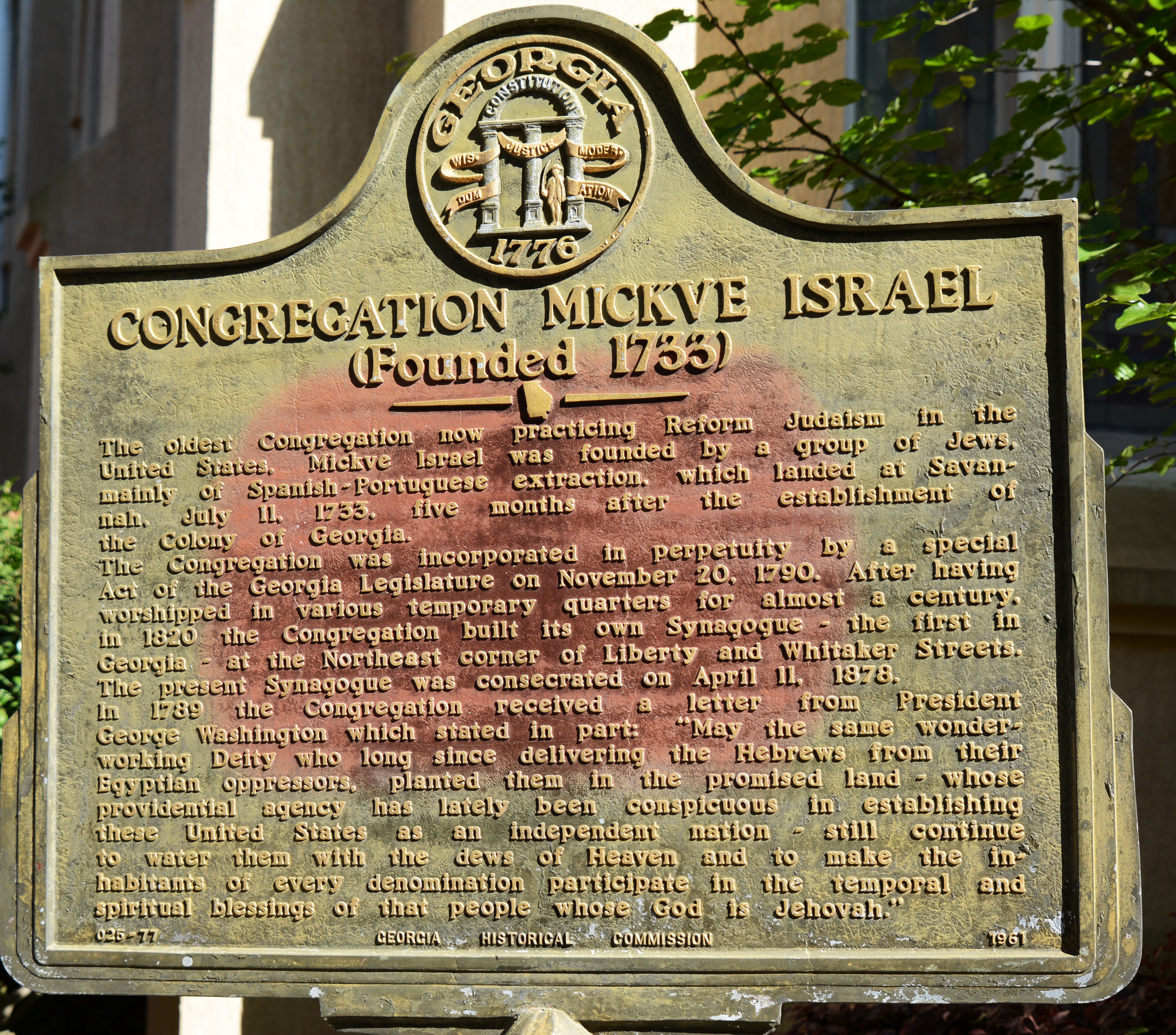 Marker for Mickve Israel Synagogue, Savannah, Georgia, US